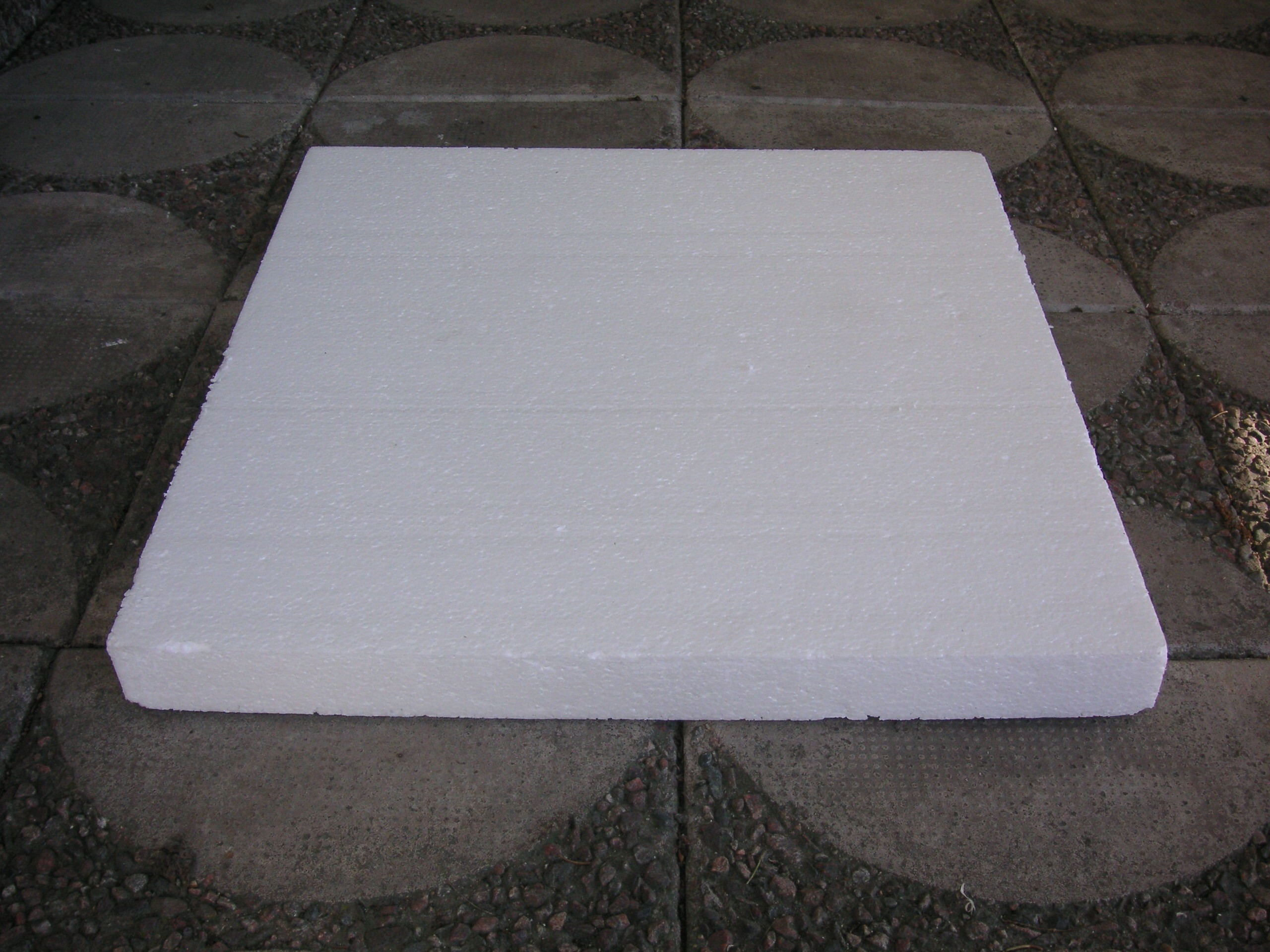 Foam "EPS"